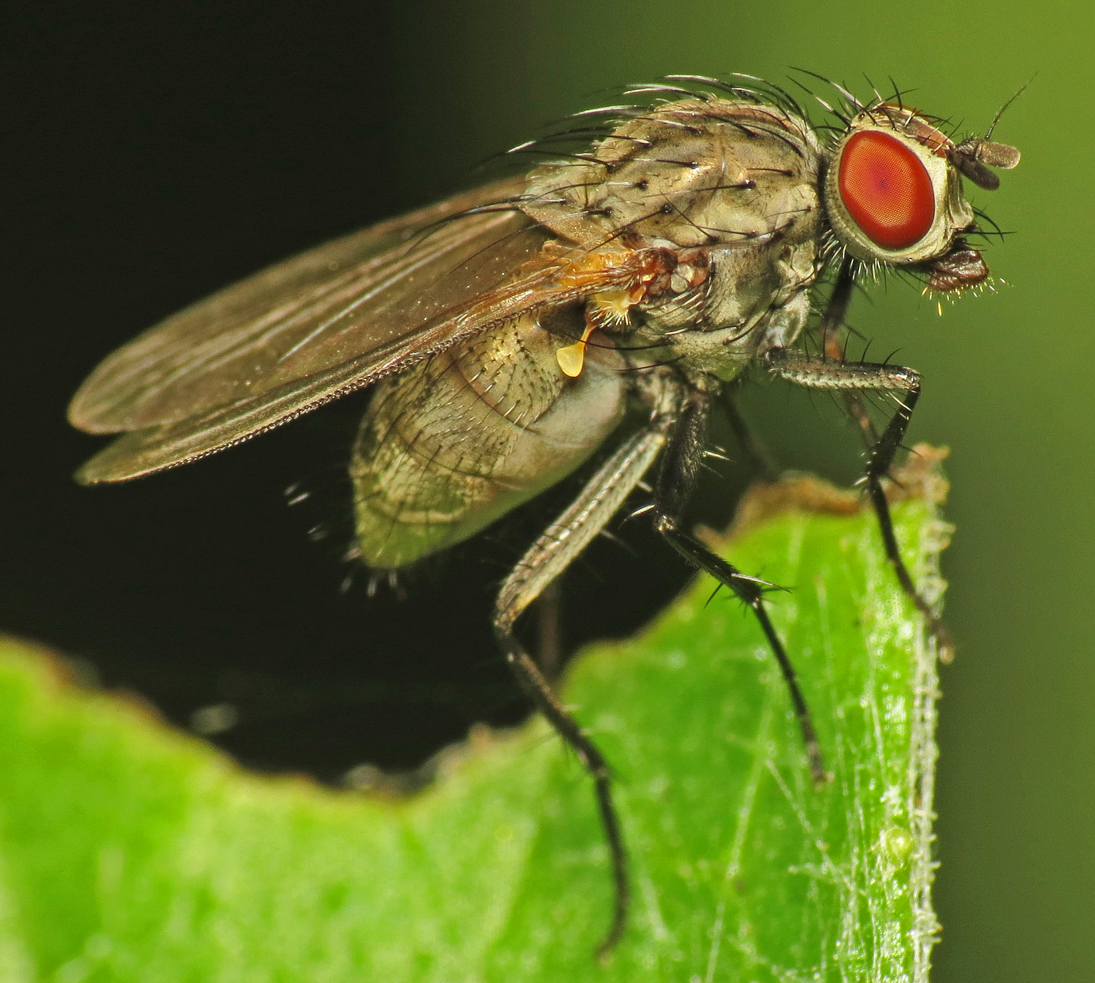 ... could be Botanophila fugax